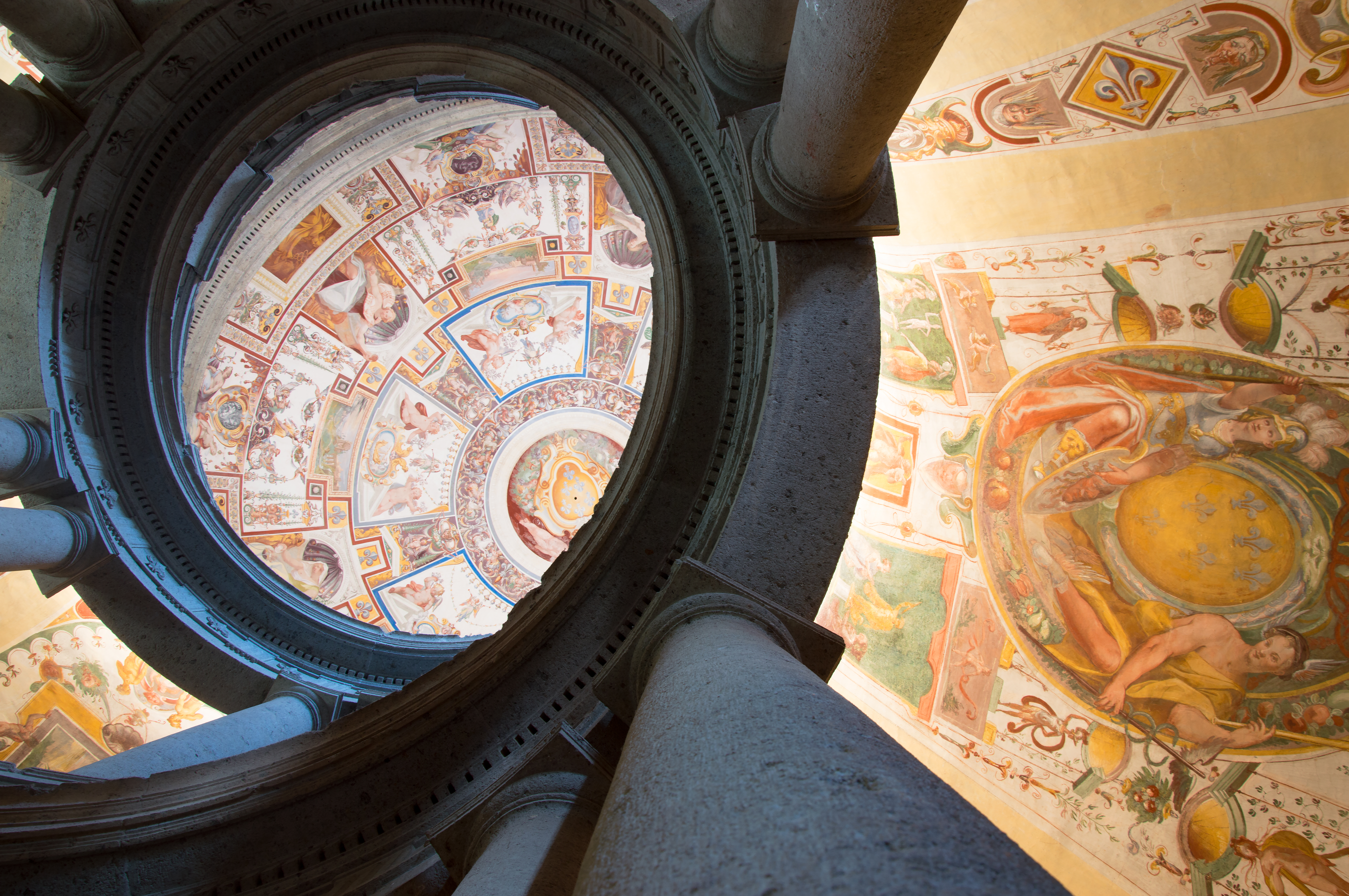 Royal stairs in Palazzo Farnese (Caprarola)